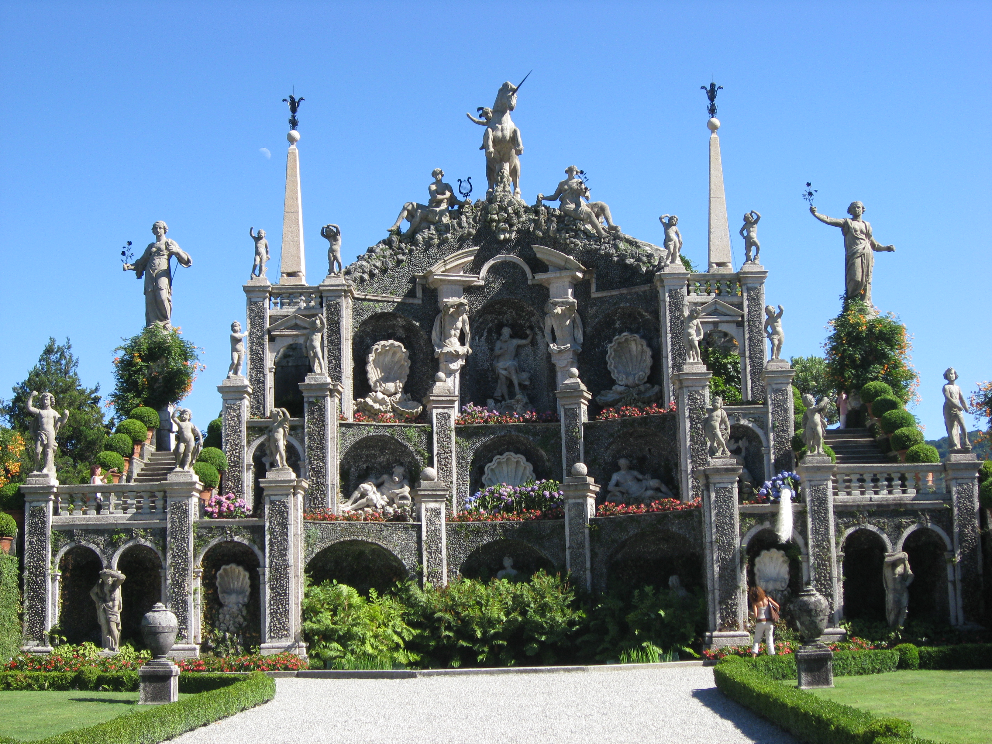 View of the gardens on Isola Bella Other information Photographed with a Canon EOS XSi digital camera